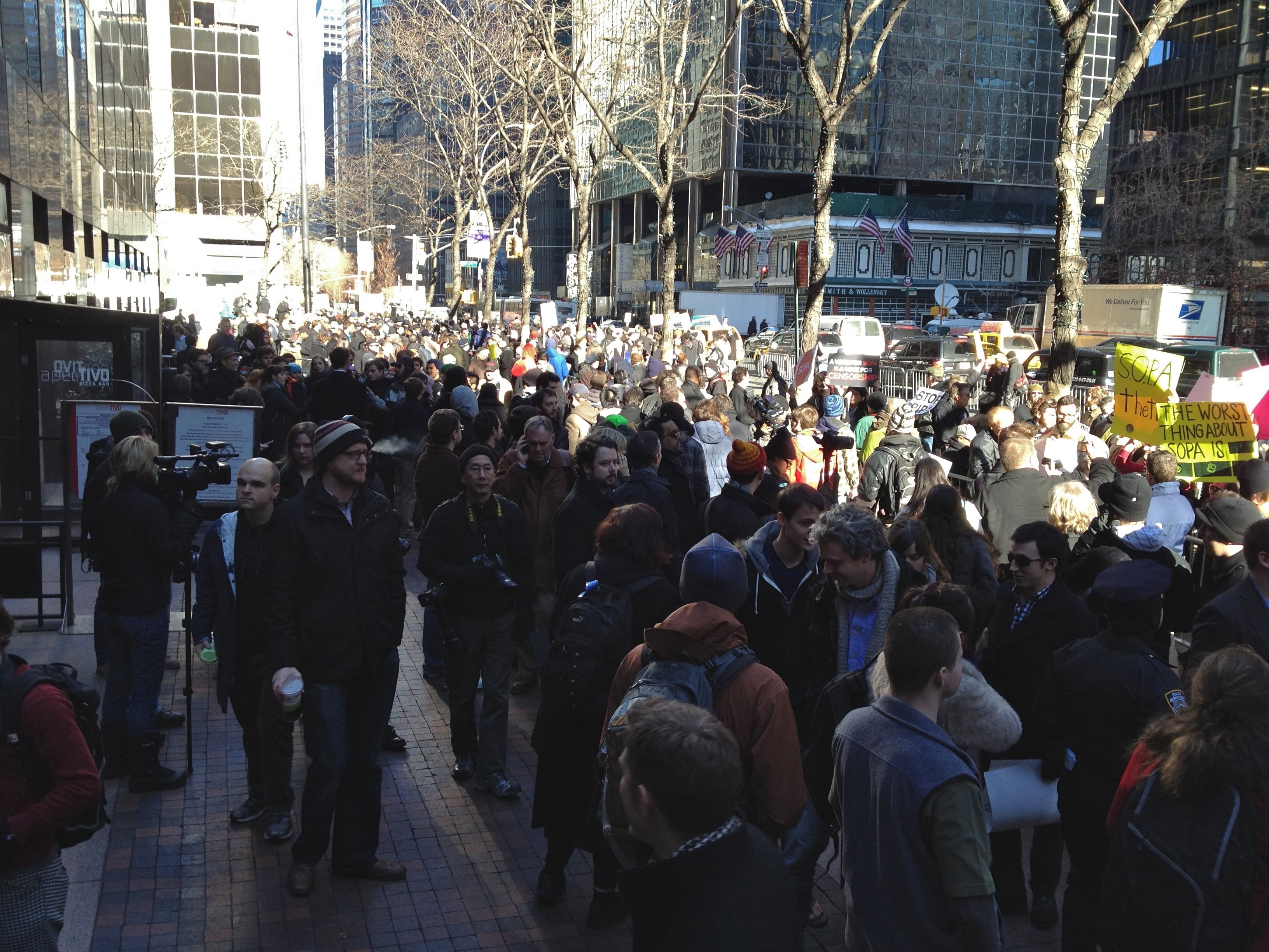 ~2000 people at rally against SOPA/PIPA, sponsored by New York Tech Meetup, in front of 780 3rd Avenue offices of New York's US Senators.